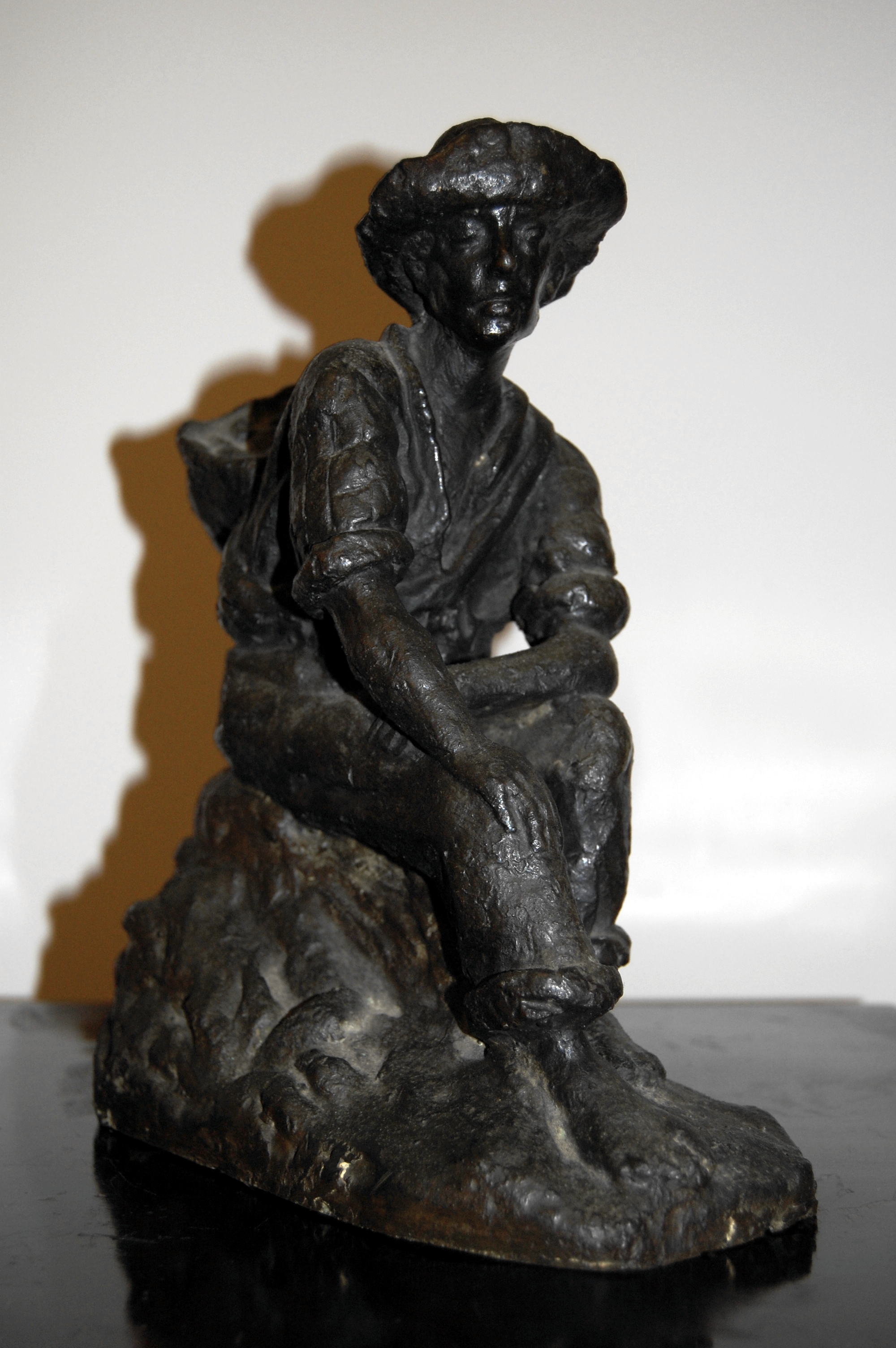 The Laranjeiro, sculpture made by Valzinho (when?)